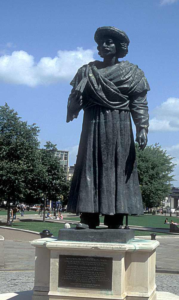 Statue of Ram Mohan Roy on College Green, Bristol, England.